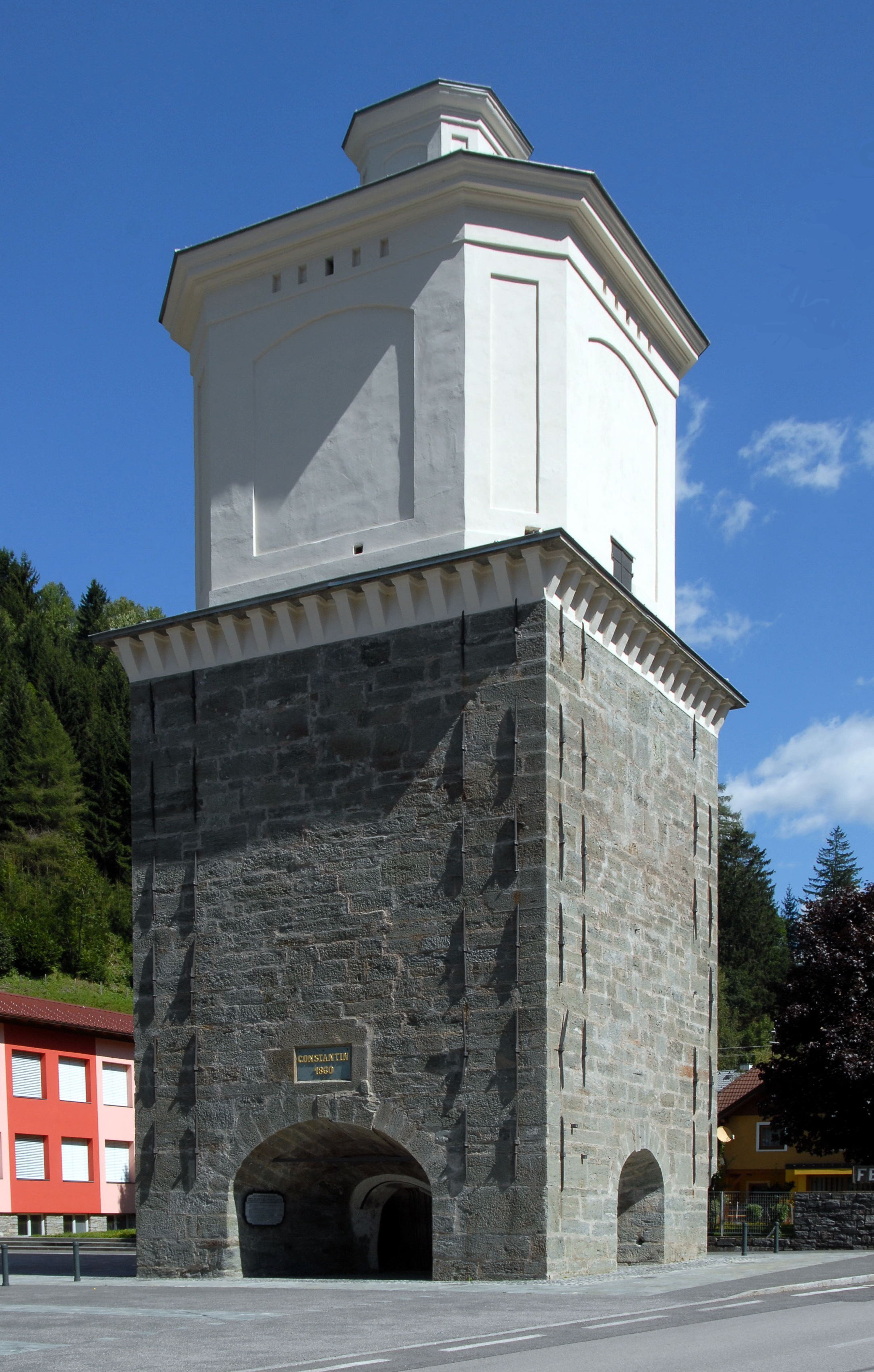 Konstantin furnace at Eisentratten, municipality Krems in Kärnten, district Spittal an der Drau, Carinthia, Austria, EU